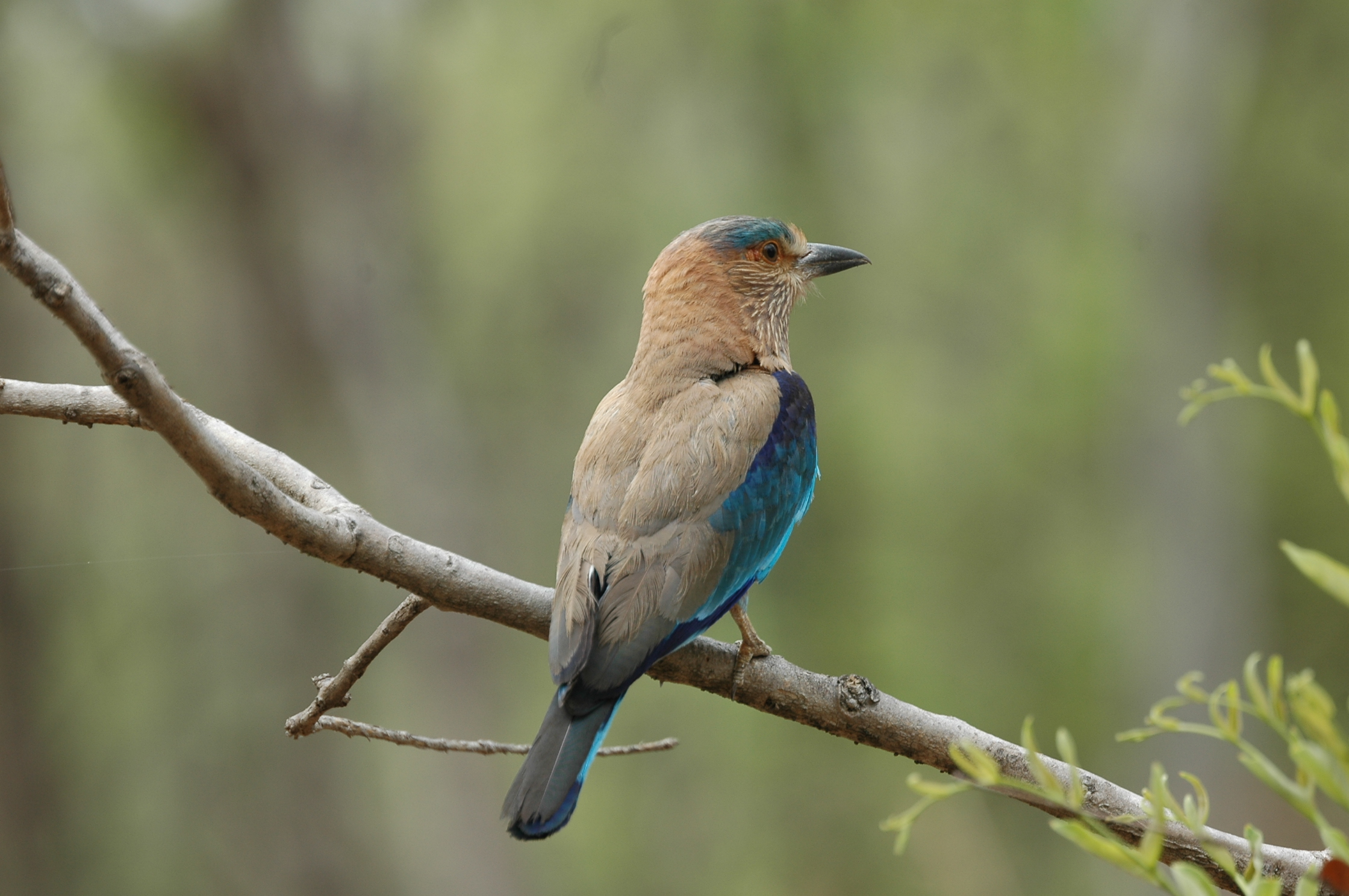 Indian Roller at Nagzira